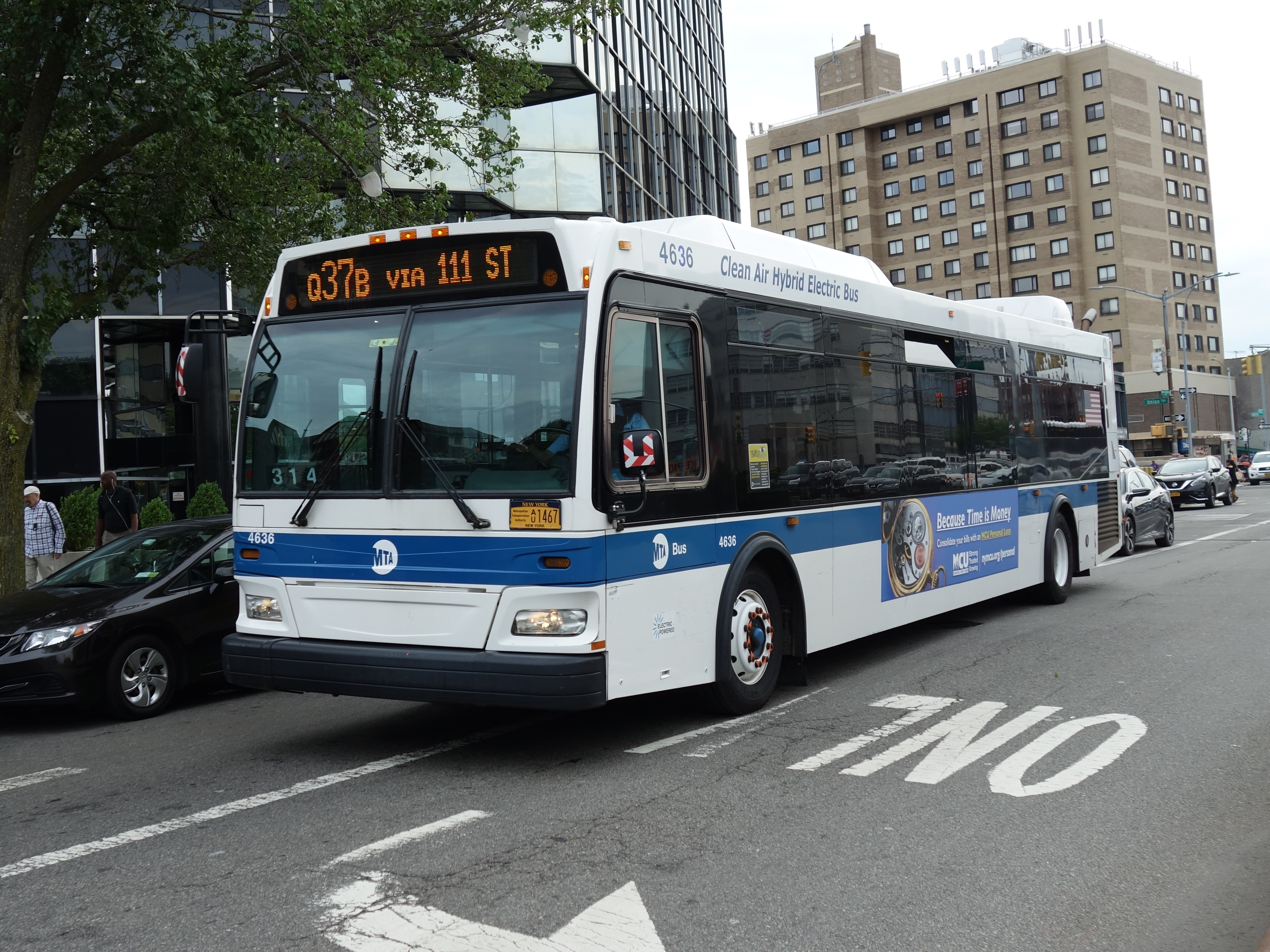 A South Ozone Park-bound Q37B bus about to turn west from Kew Gardens Road onto 80th Road near Queens Boulevard in Kew Gardens, Queens. The Q37B was created in 2017 to bypass the Resorts World Casino branch of the route. Looking from Newcombe Square.